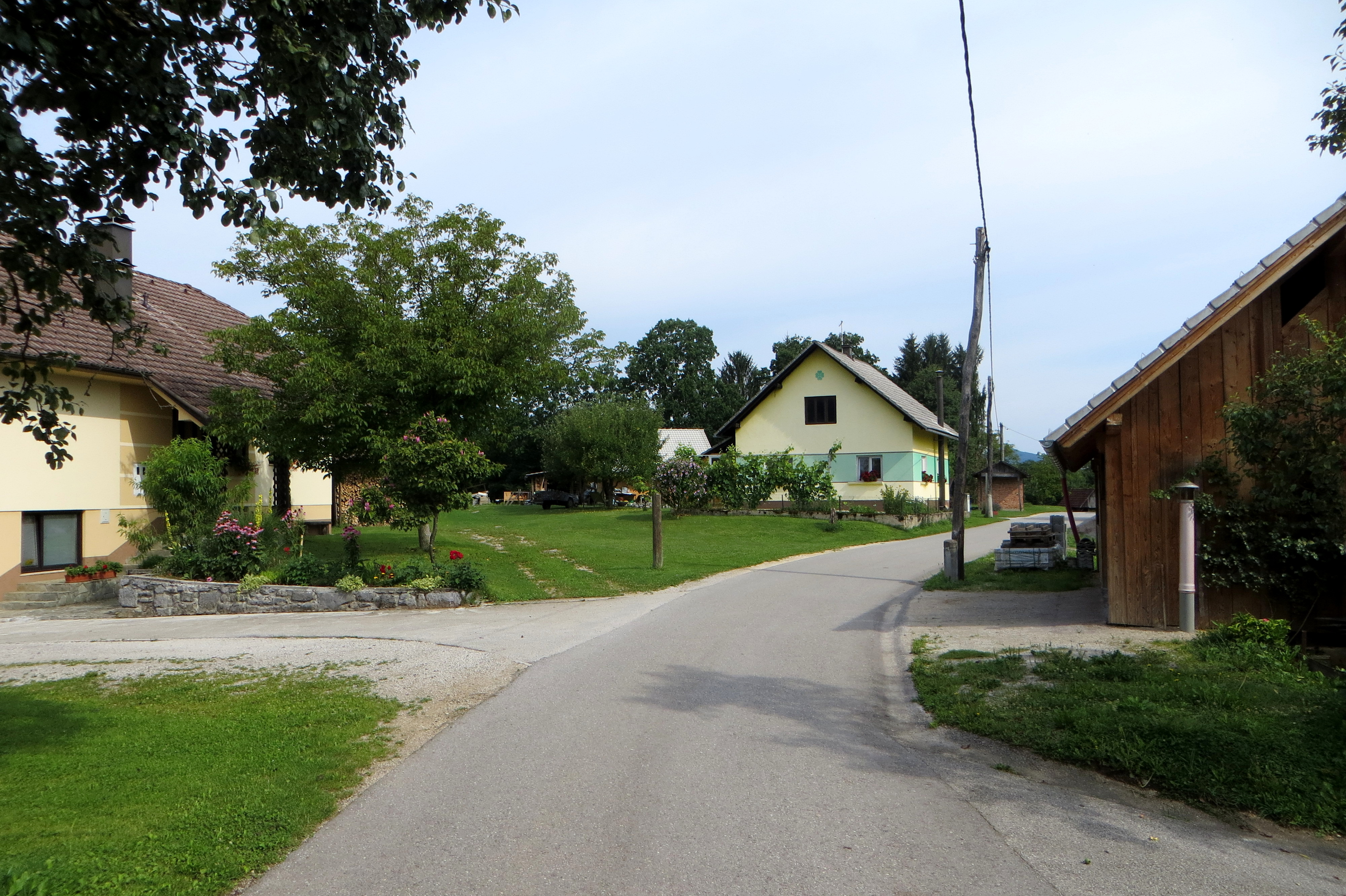 Podgozd, Municipality of Žužemberk, Slovenia